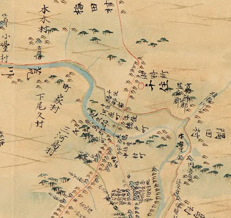 National Diet Library Digital Collection This image is available from the website of the National Diet Library This tag does not indicate the copyright status of the attached work. A normal copyright tag is still required. See Commons:Licensing for more information. English | 日本語 | +/−